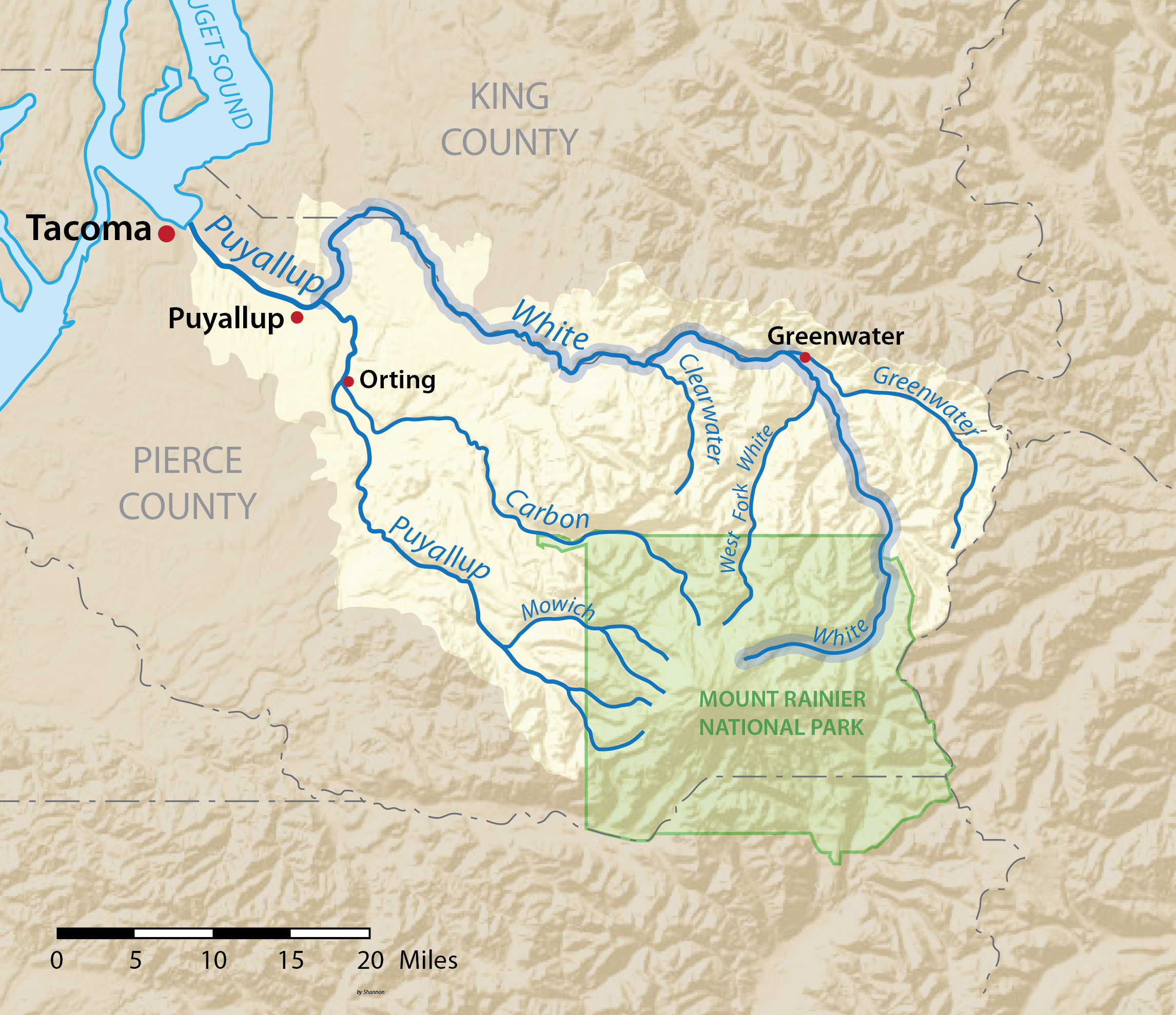 Map of the Puyallup River watershed in Washington, USA with the White River highlighted. Made using USGS National Map data.